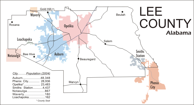 Map of Lee County, Alabama, showing cities and major highways. Created by Lissoy, August 9, 2005.